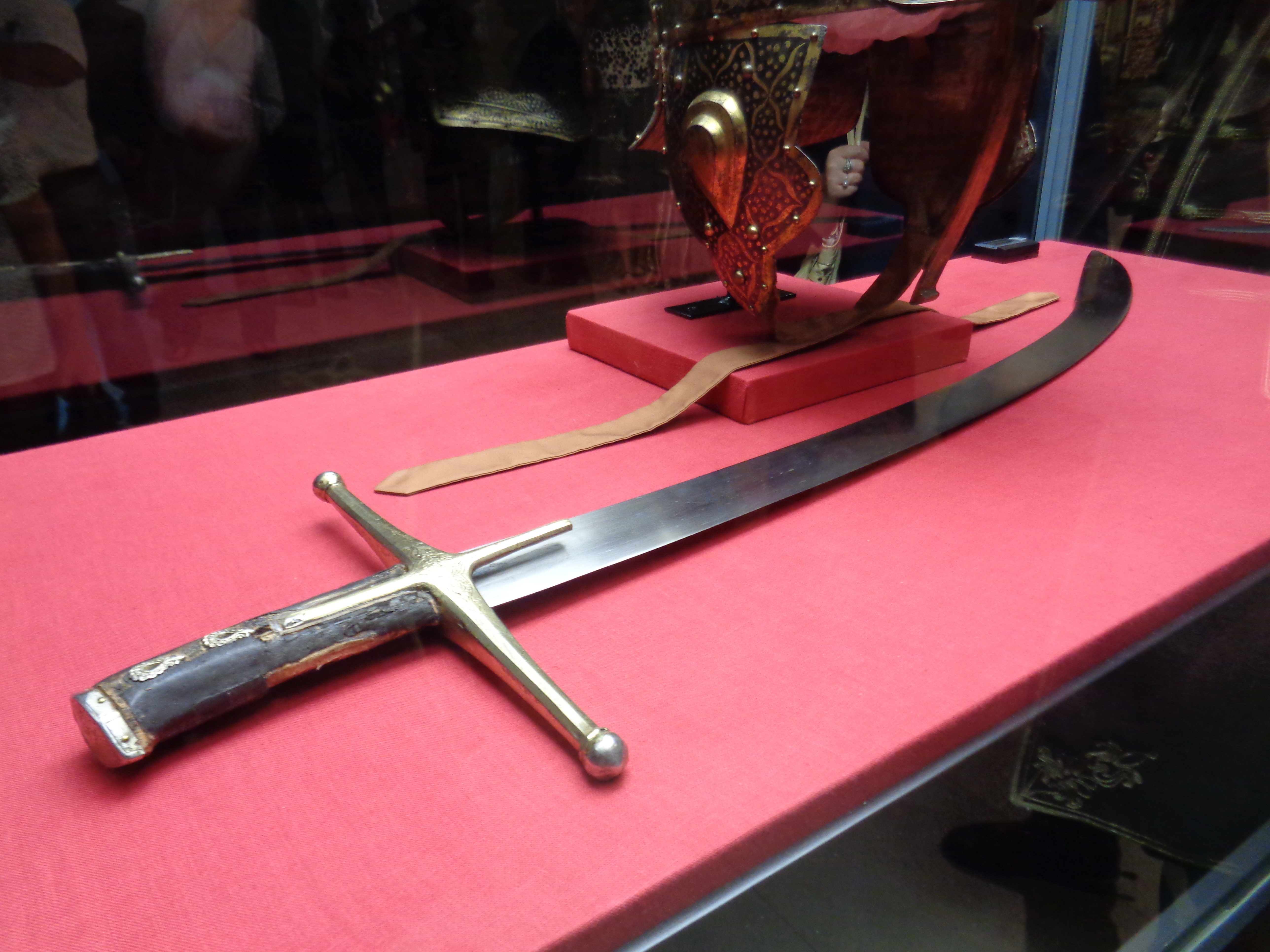 Sabre of Nikola IV Šubić Zrinski (1508-1566), Ban (Viceroy) of Croatia, national hero who fell at the end of the battle of Szigetvár in Hungary, at an exhibition in Čakovec County Museum on the 450th aniversary of the battle